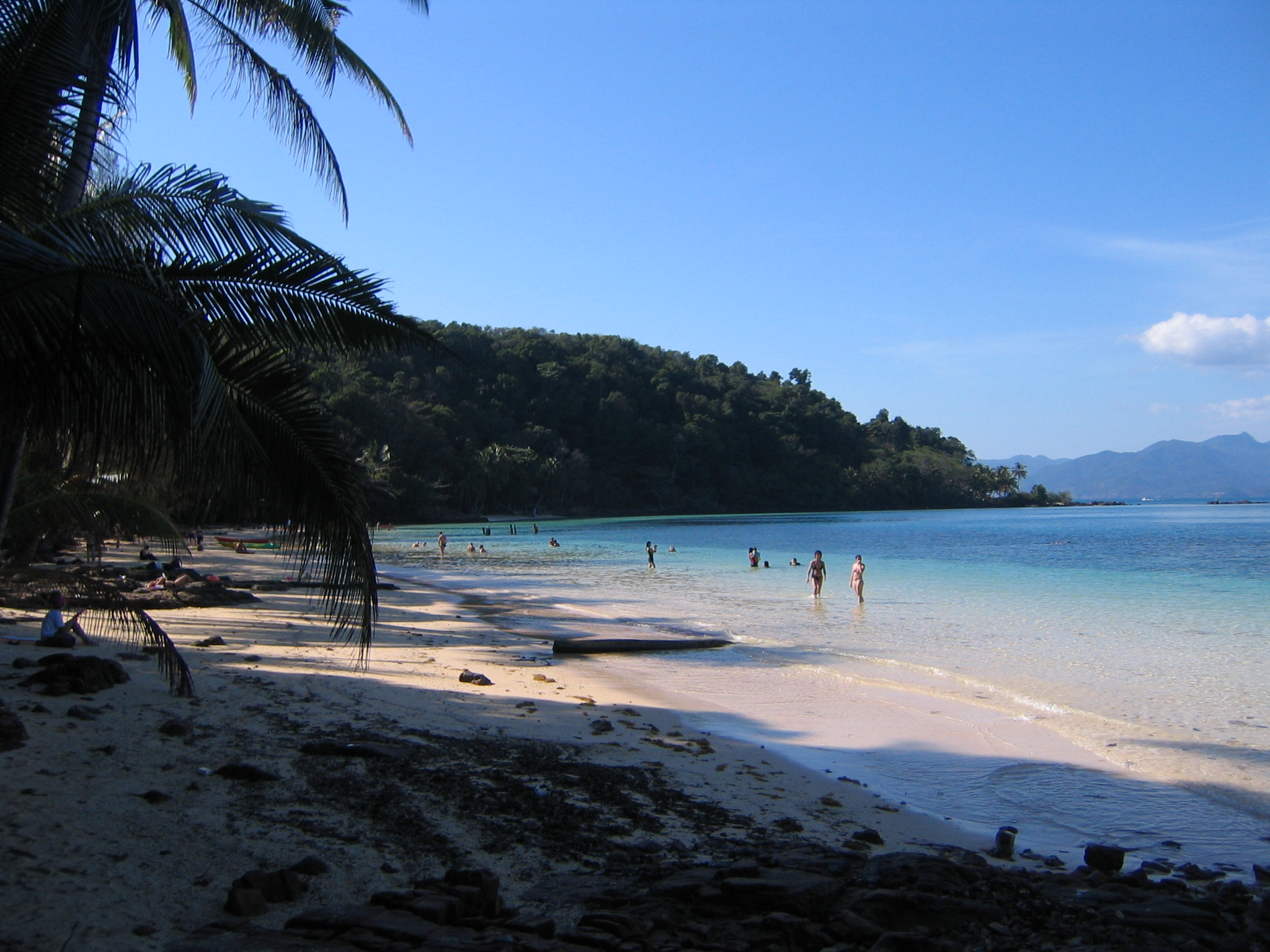 Ko Wai island in Moo Ko Chang Marine National Park, Trat Province, Thailand. This beach is one of two nice beaches on the island and is part of Ko Wai Paradise Resort.